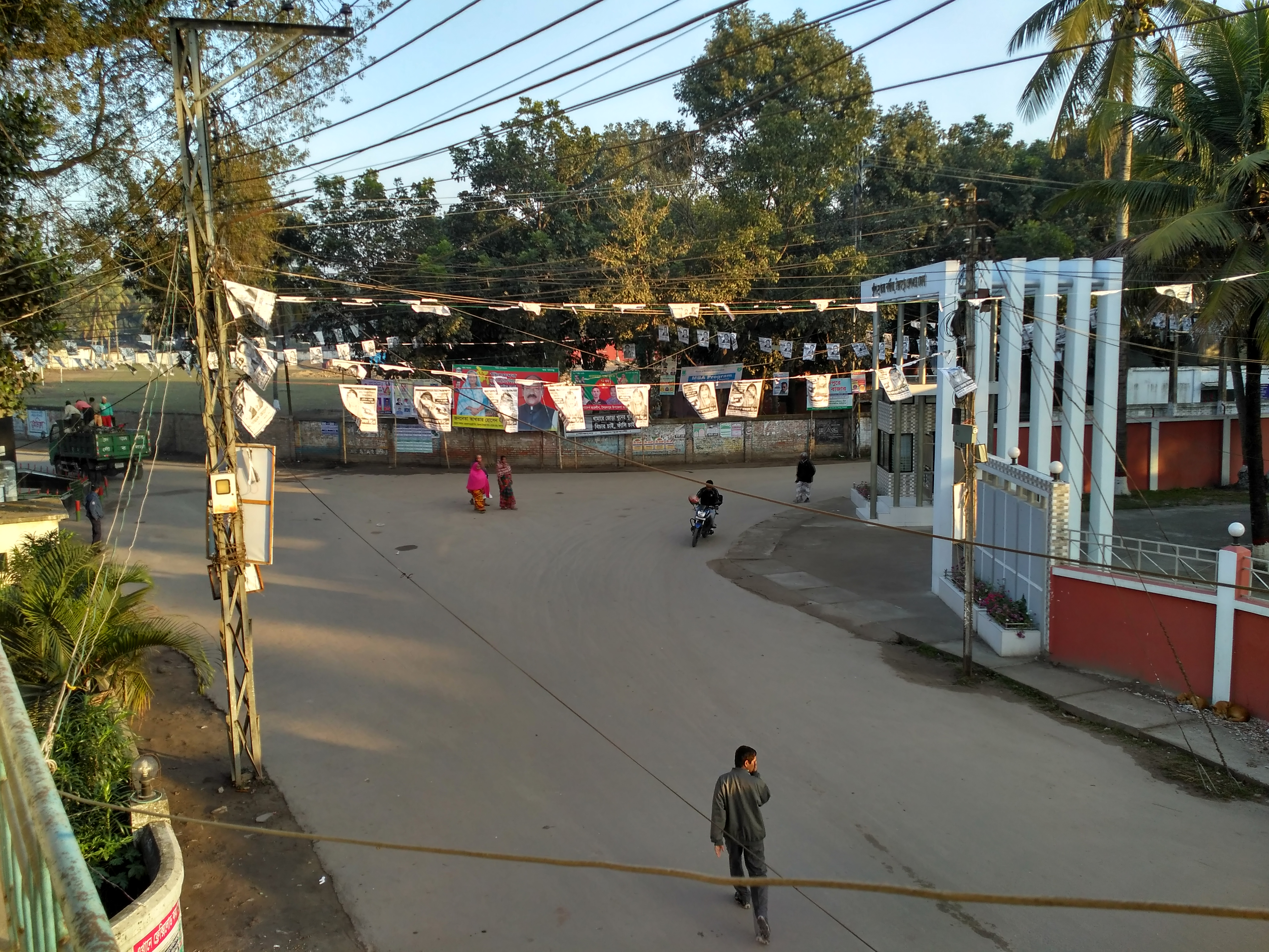 View of the road in front of the police club, Saidpur, Nilphamari, Bangladesh. (01.03.2019)